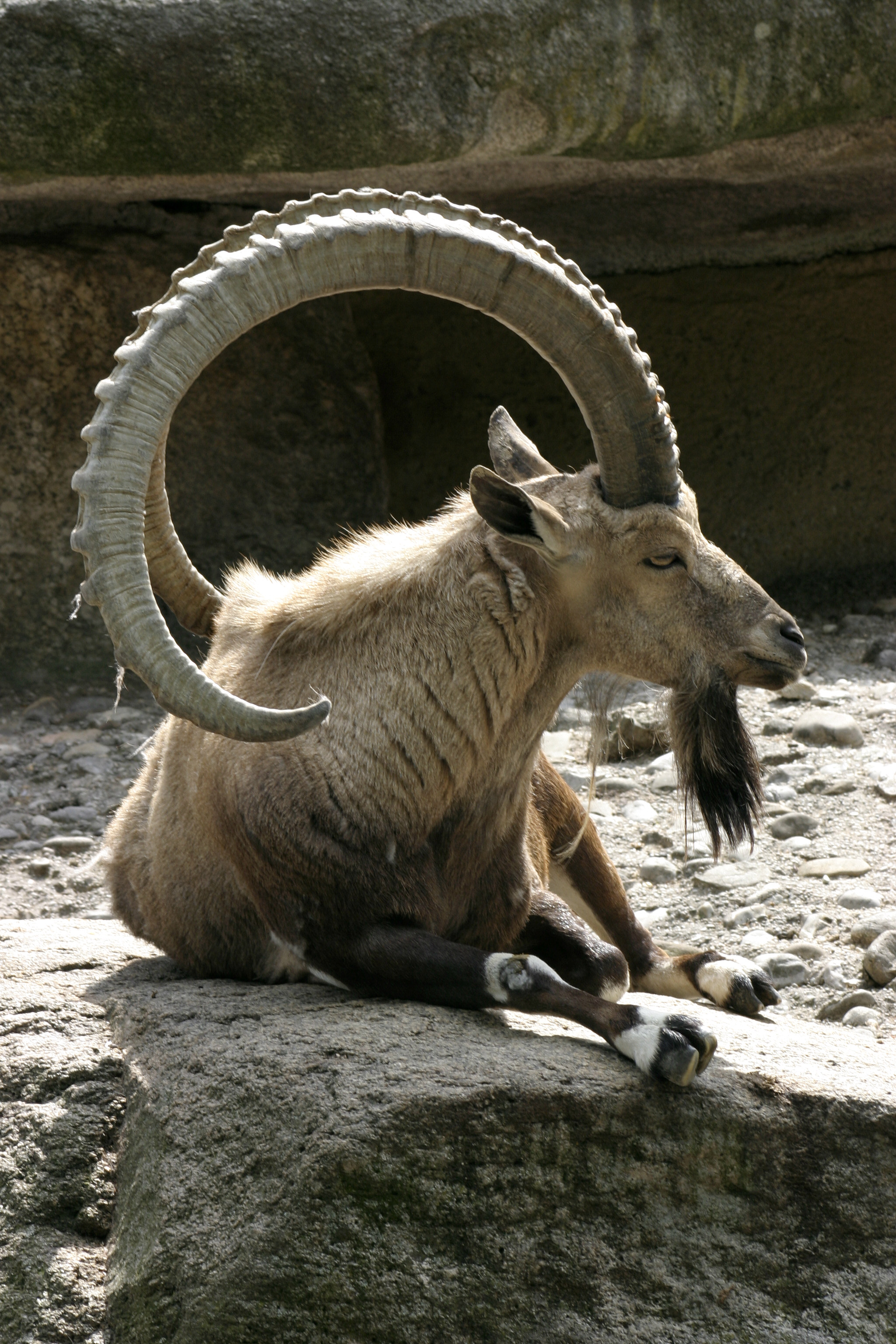 Alpine ibex Correction: Nubian Ibex